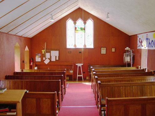 The interior of St. Thomas Anglican Church in Silver Creek, Quebec. Pictured from the altar.